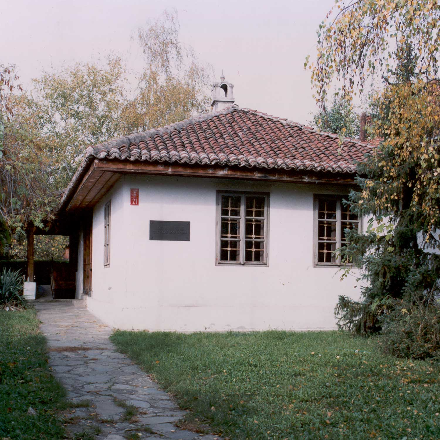 House in Svetozara Markovića 23 street in Kragujevac